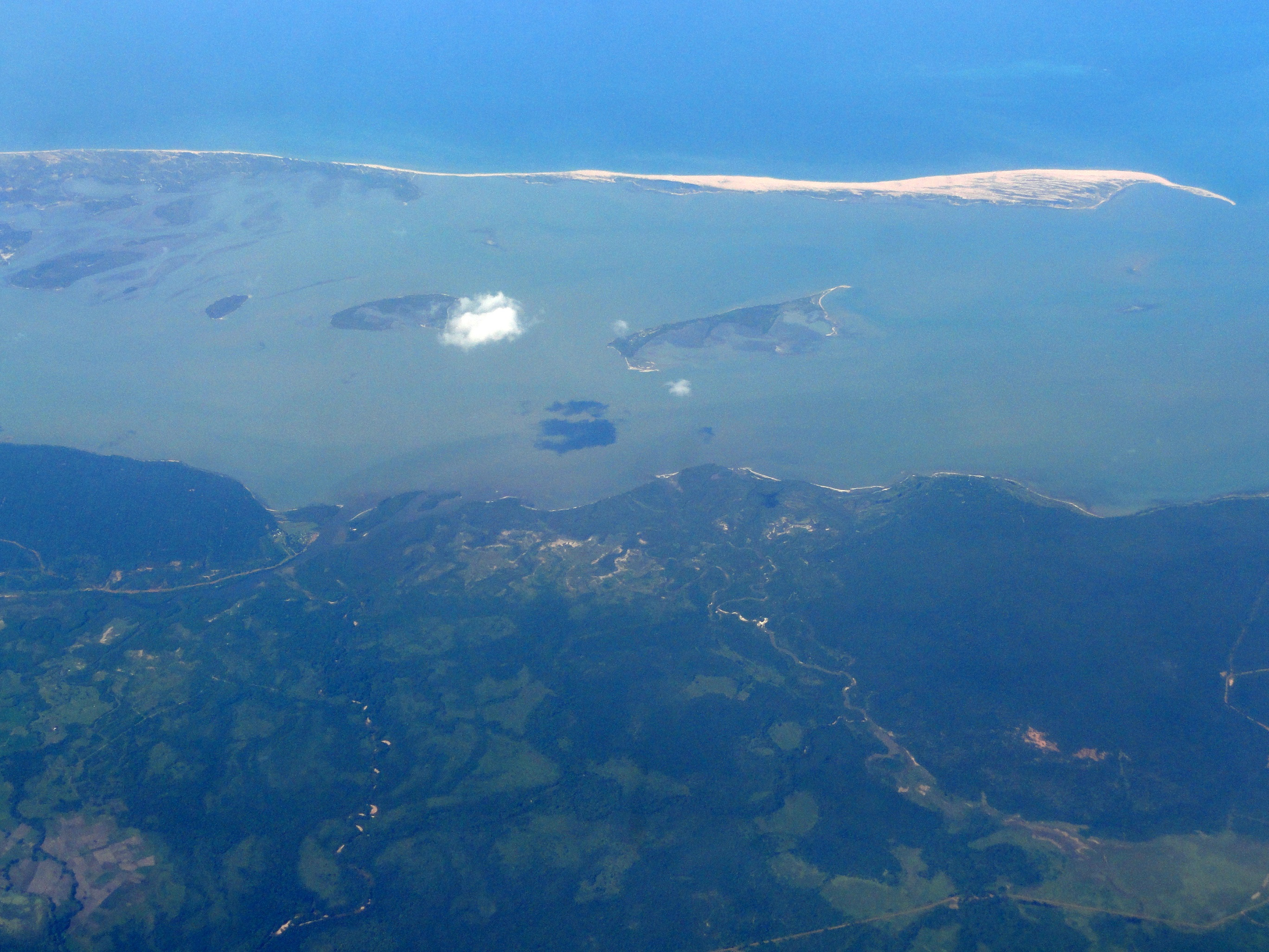 The Puttalam Lagoon, between mainland Sri Lanka (foreground), and the northern end of the Kalpitiya Peninsula (background).